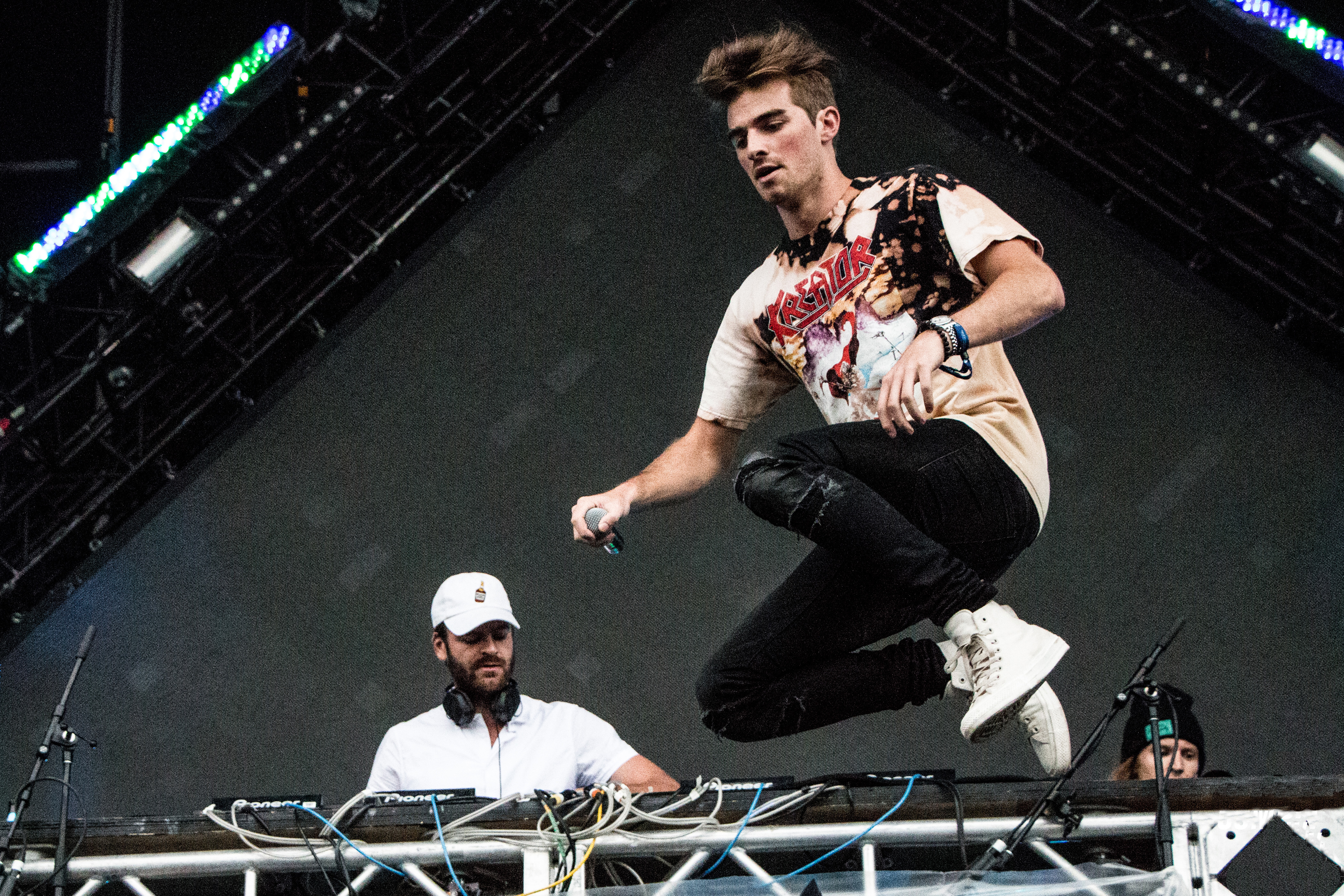 The Chainsmokers playing live at VELD 2016